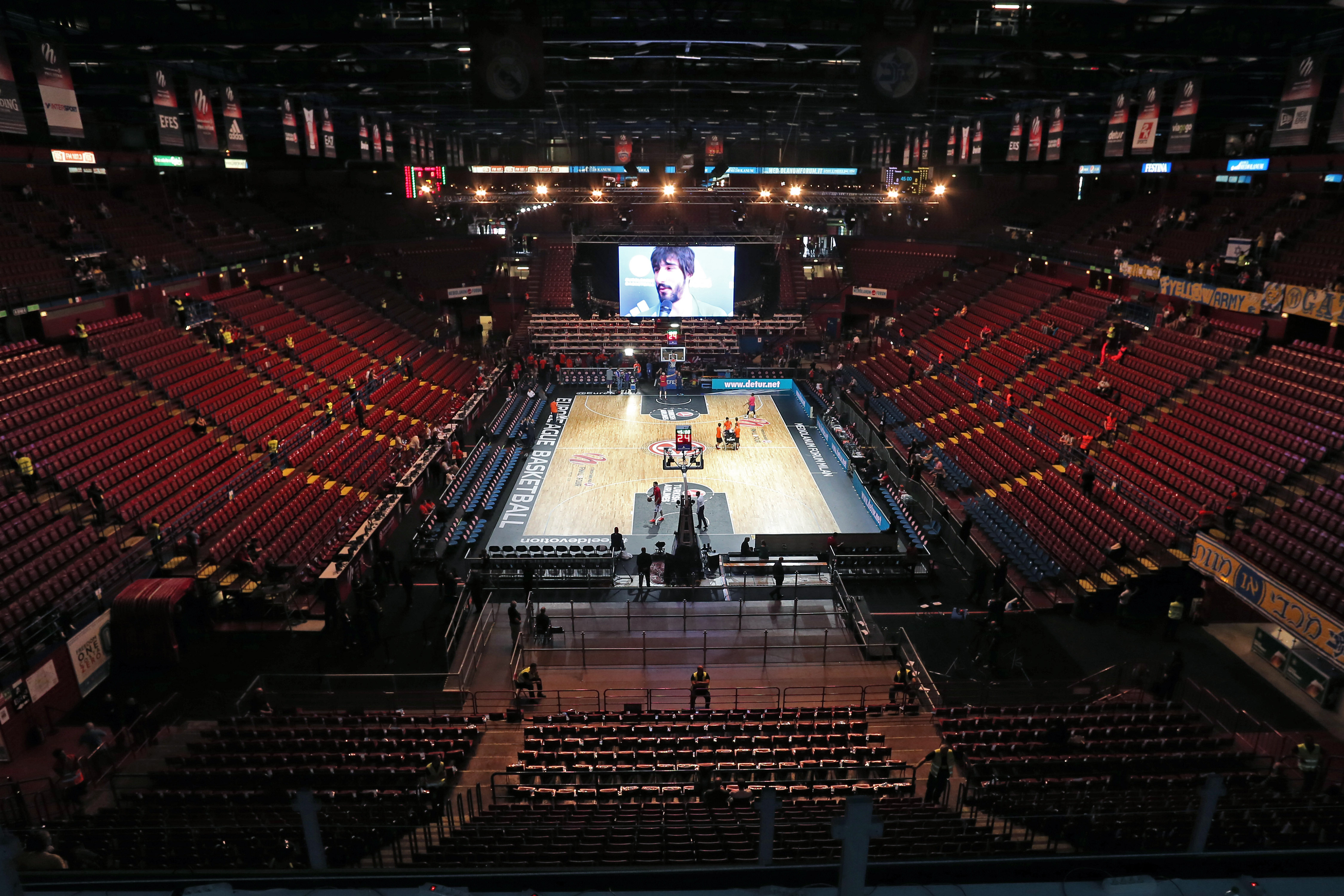 Forum di Assago during staging for the Euroleague Final Four 2014.